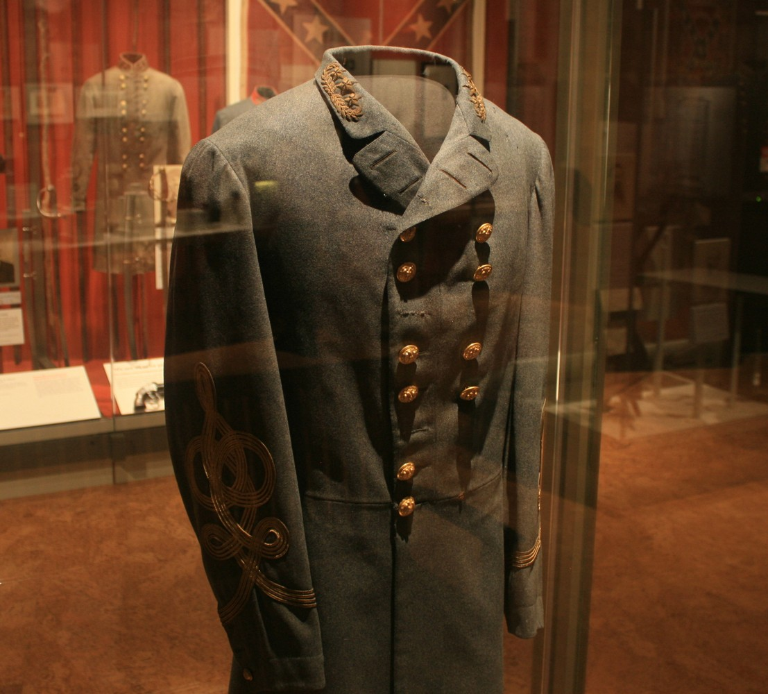 Coat of R. E. Lee, presented by G. W. C. Lee in 1892. Museum of Appomattox.